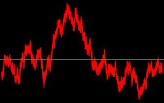 Example of noise signals with different power spectra.